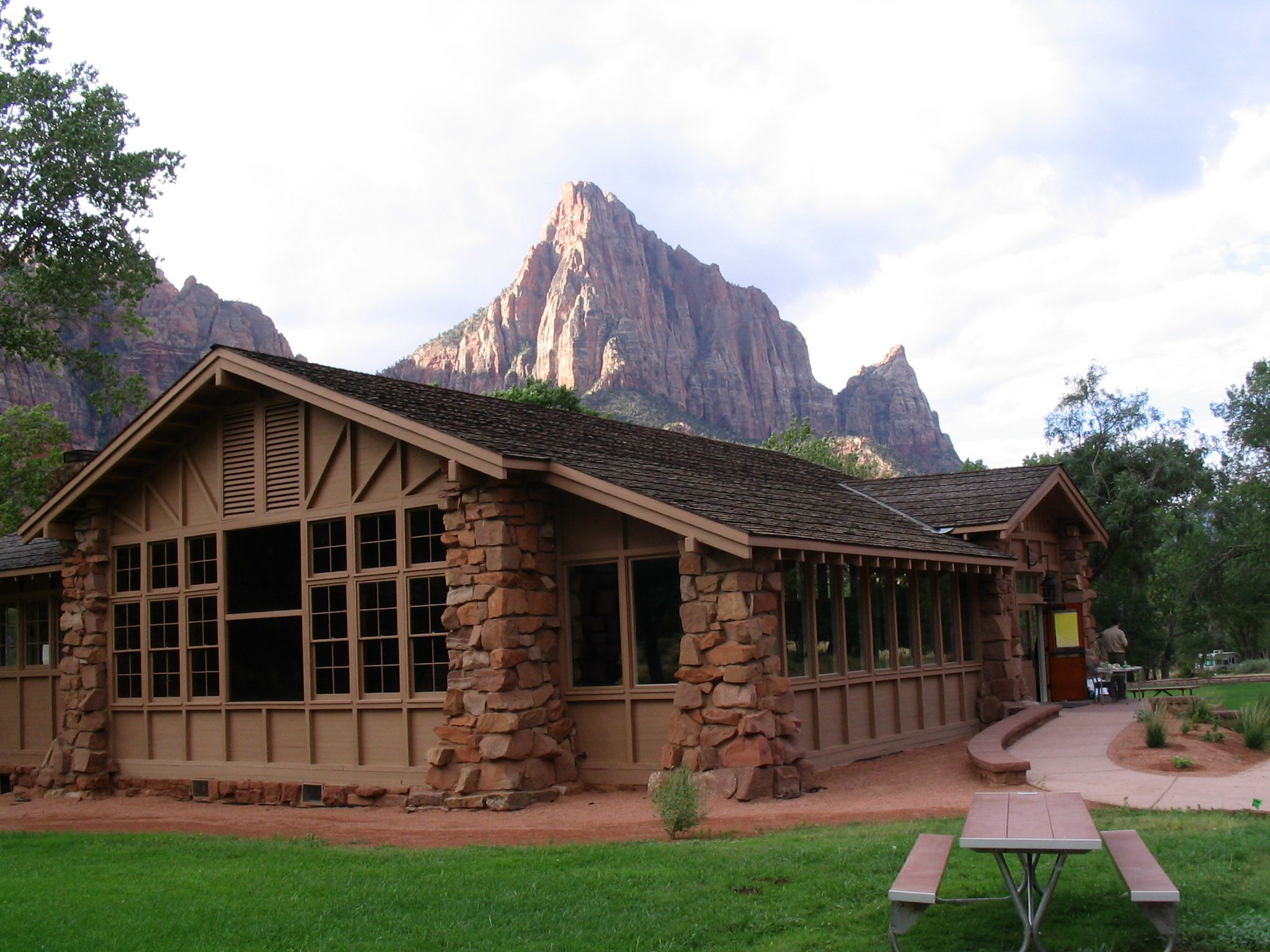 Rehabilitated Zion Nature Center — Zion Inn. by architect Gilbert Stanley Underwood. Zion National Park, Utah.